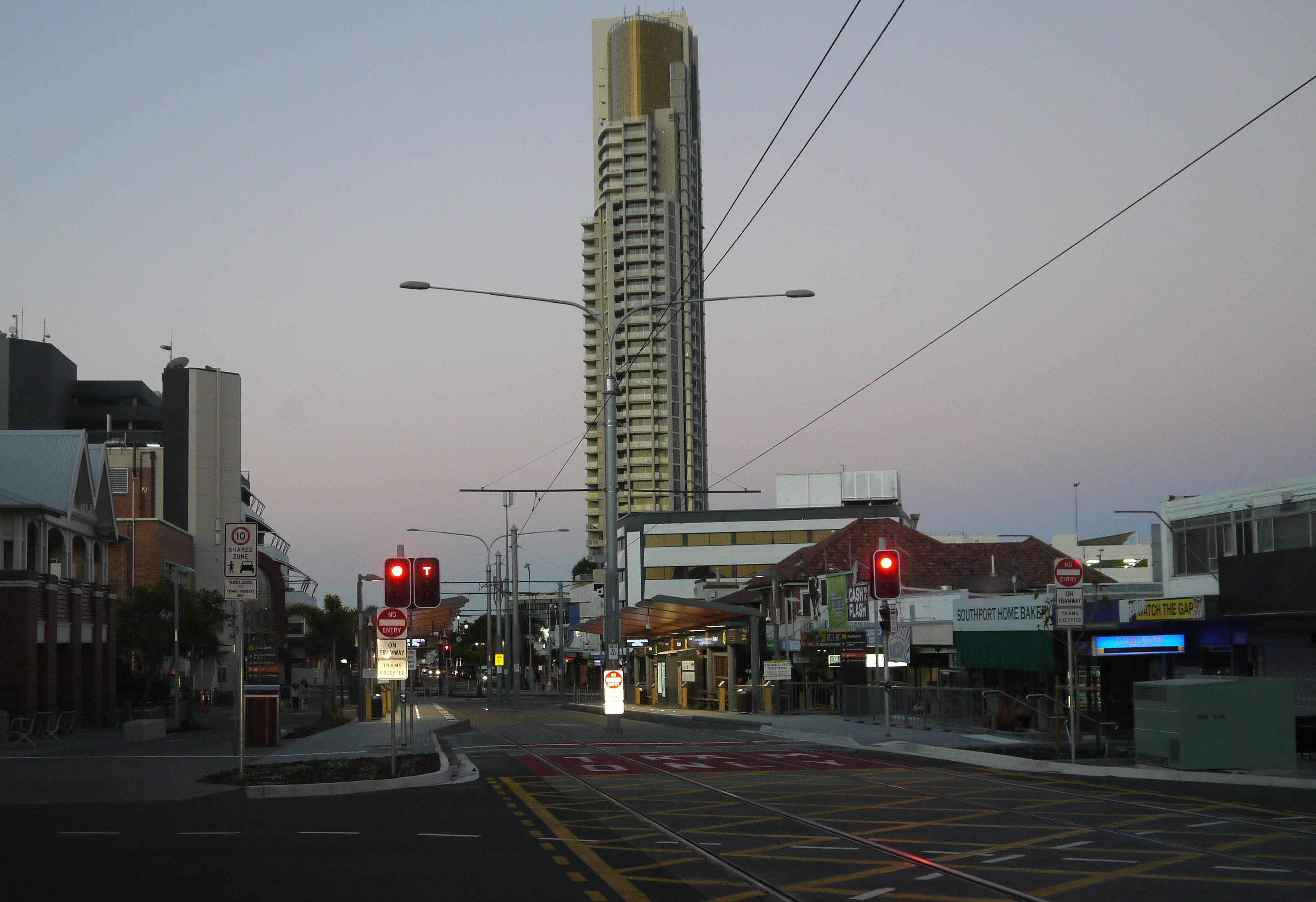 Gold Coast Light Rail - Southport Station, looking east along Nerang Street